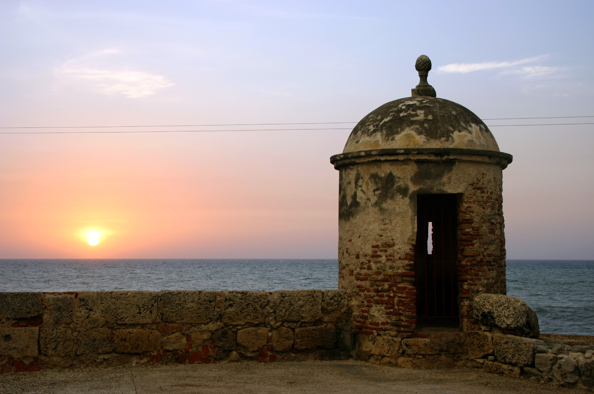 Sunset in Cartagena, Colombia